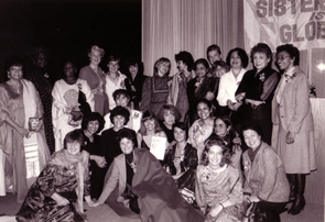 Meeting of Sisterhood is Global, started by Robin Morgan, at Lincoln Center